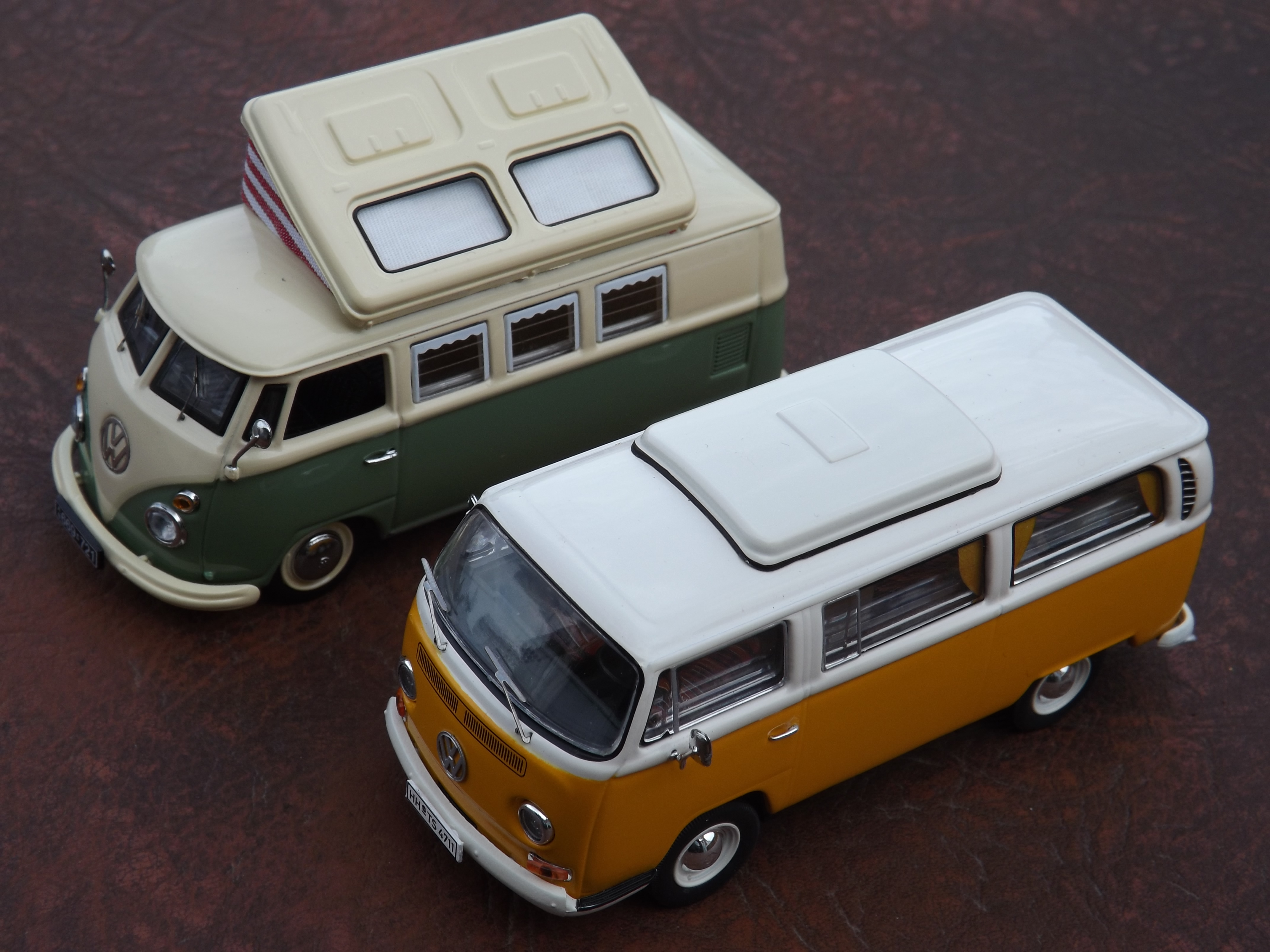 VW T1 (Splittie/Bulli) Camper by Schuco & T2 (Bay Window/Bulli) by Premium Classixxs